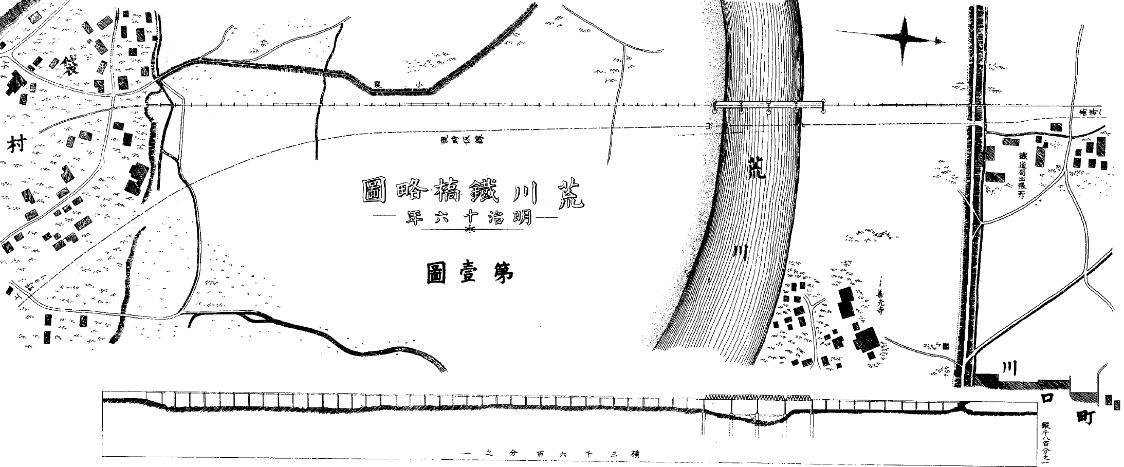 Figure of first Arakawa railway bridge on Tohoku mainline